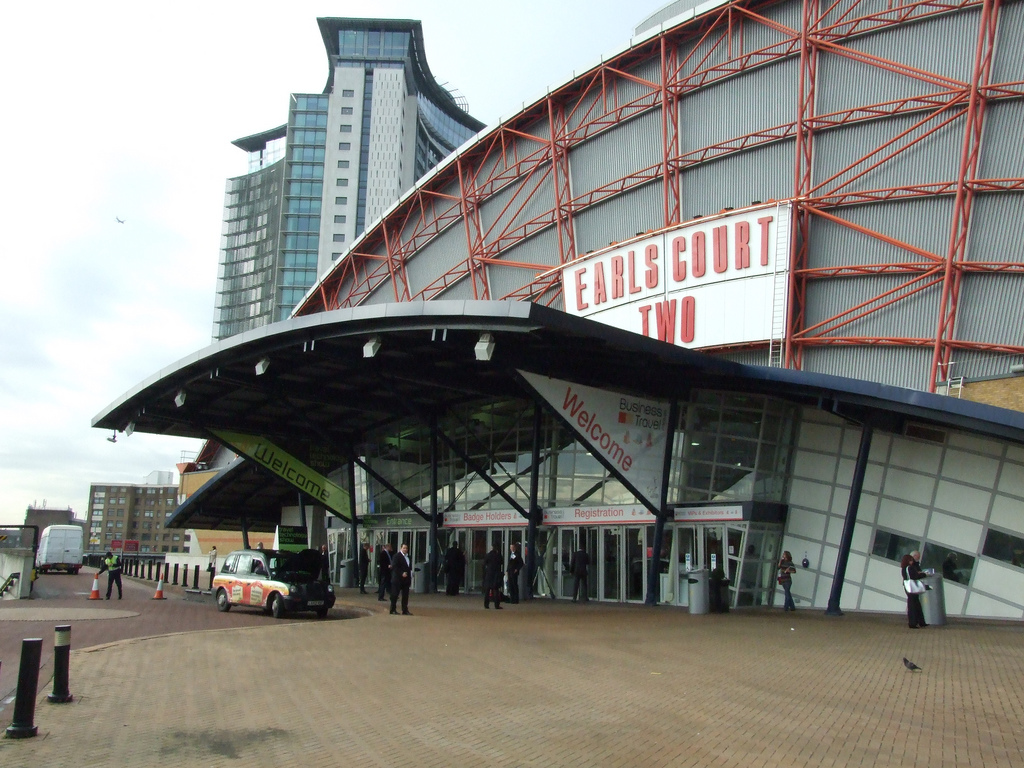 Outside Earls Court